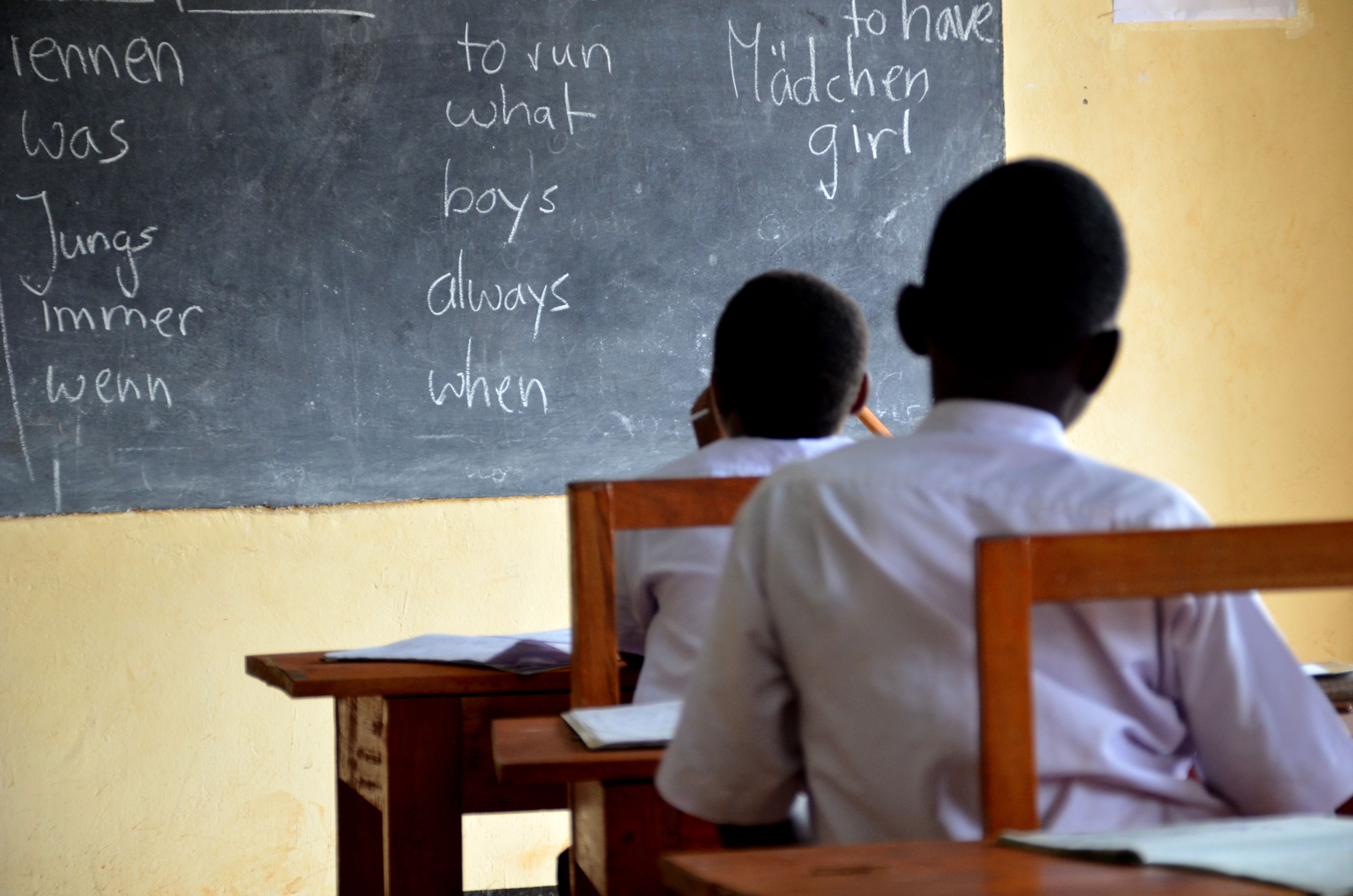 Students in a Tanzanian Classroom, One World Secondary School Kilimanjaro